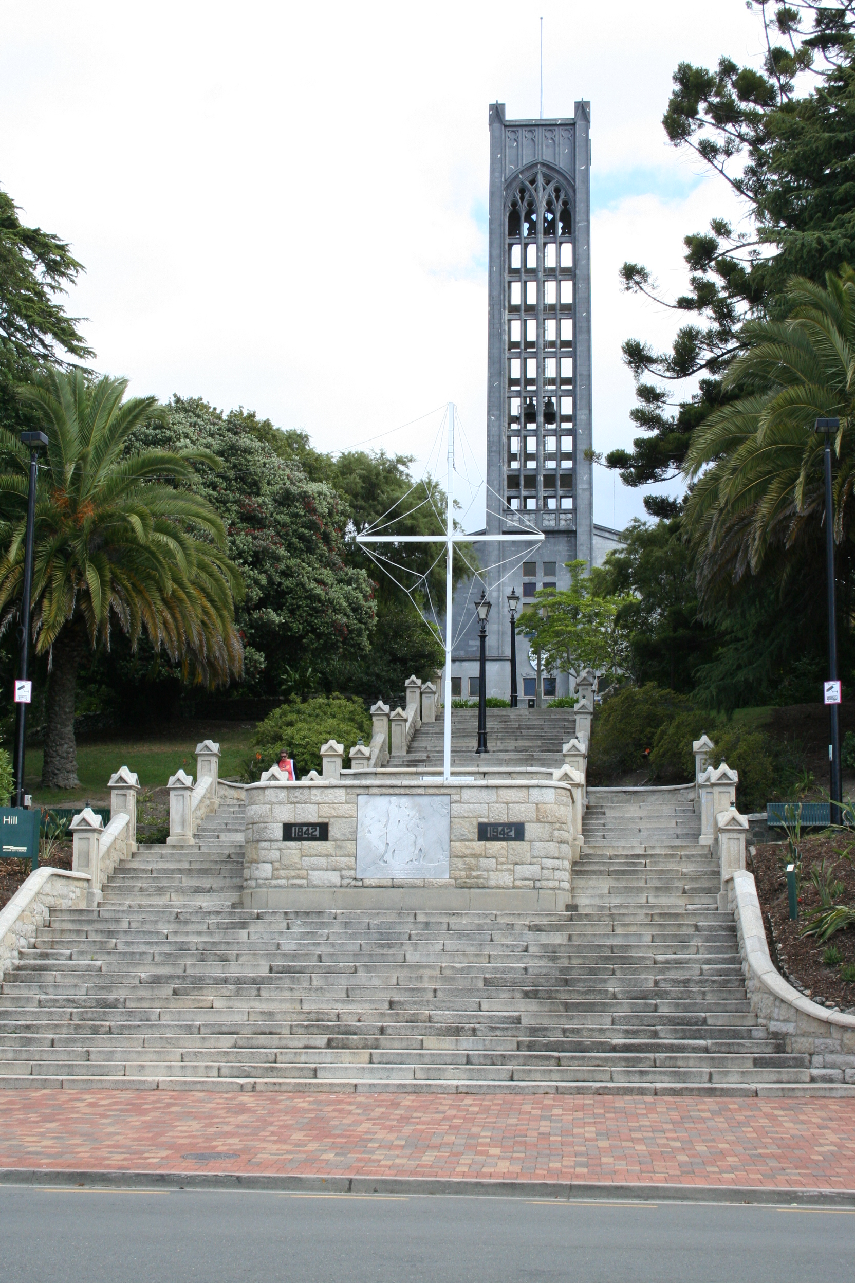 Christ Church Cathedral, Nelson, South Island, New Zealand